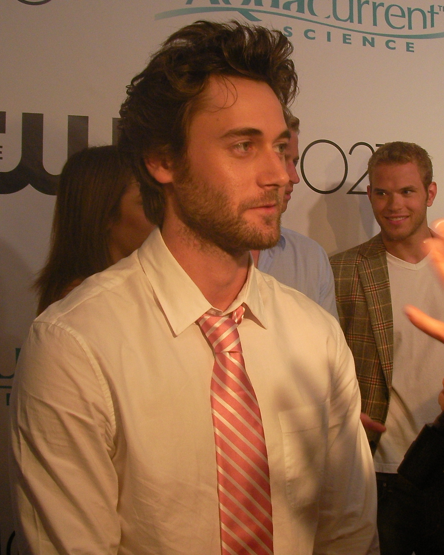 Premiere party for CW's "90210," Malibu, California - Aug. 23, 2008